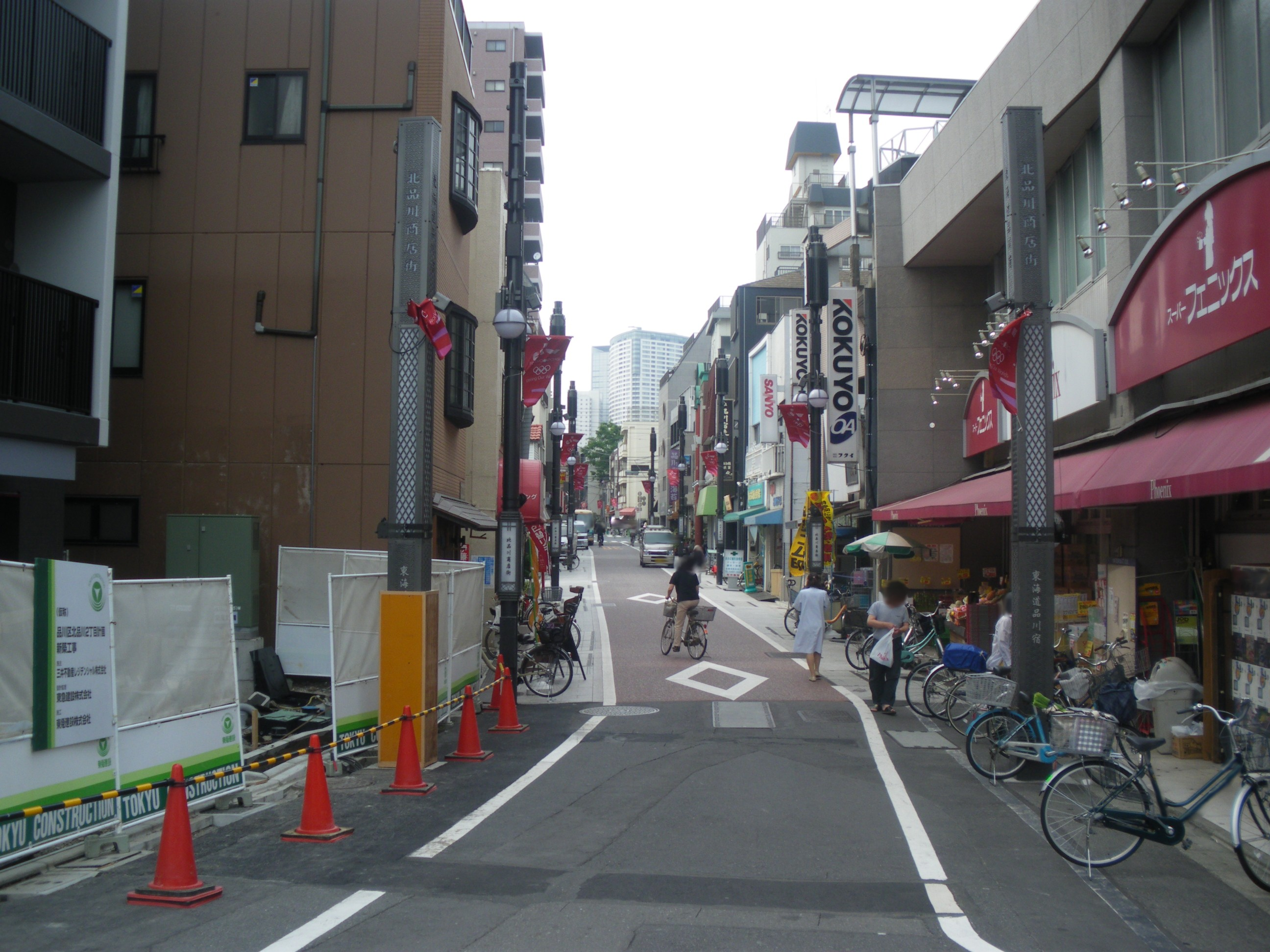 Kitashinagawa shopping Street(Shinagawa,Tokyo)